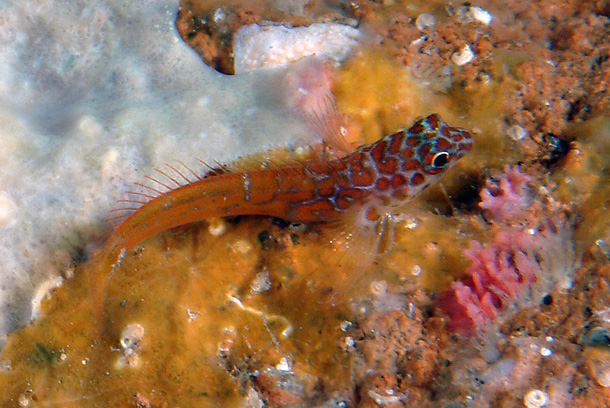 Lipophrys nigriceps photographed near Capraia island (Tuscany, Italy). Photo by Stefano Guerrieri.